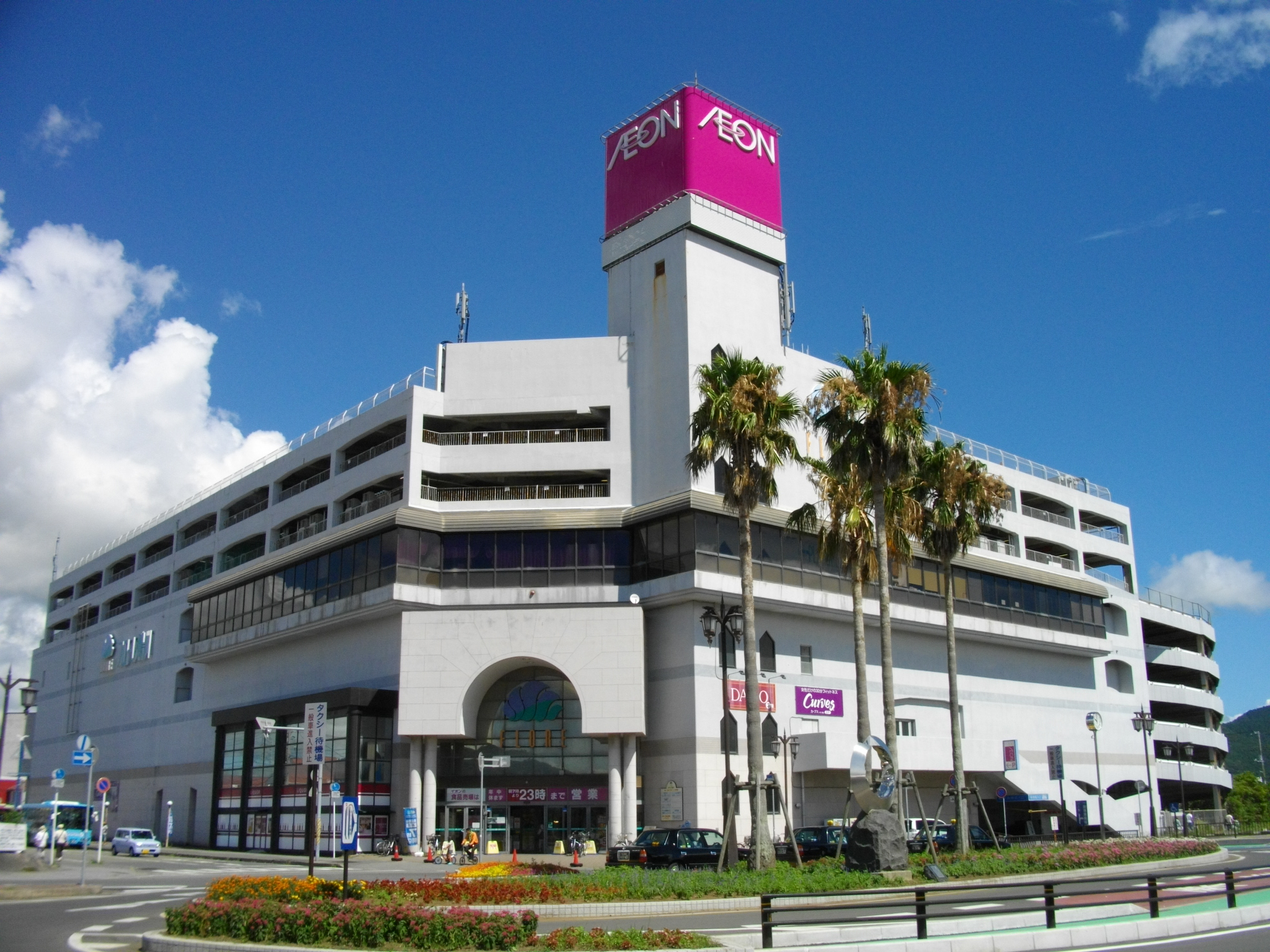 Flore Kamogawa Shopping Center